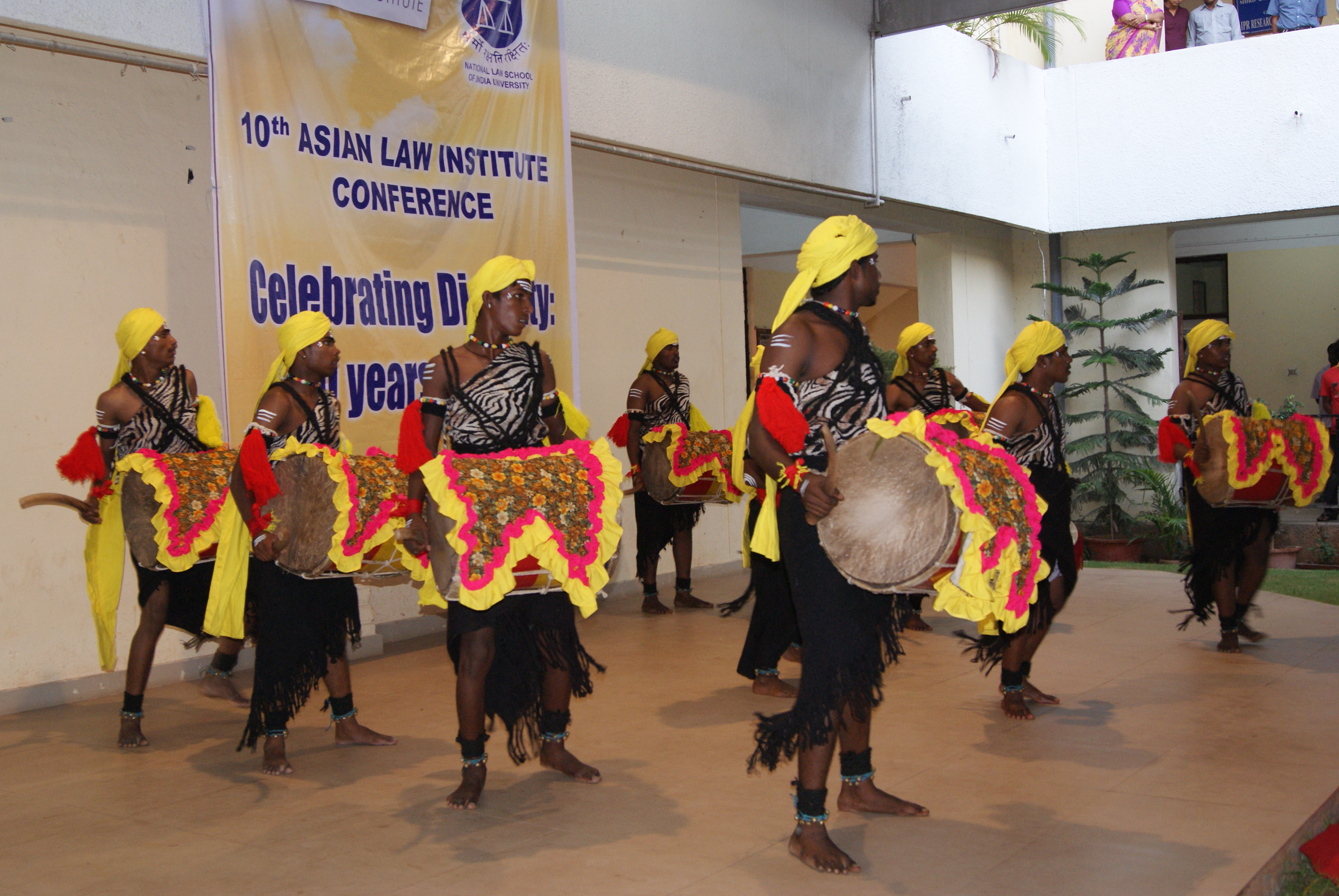 A cultural performance during the 10th Asian Law Institute Conference with the theme "Celebrating Diversity: 10 Years of AsLI" held at the National Law School of India University in Bangalore, Karnataka, India, on 23 and 24 May 2013.